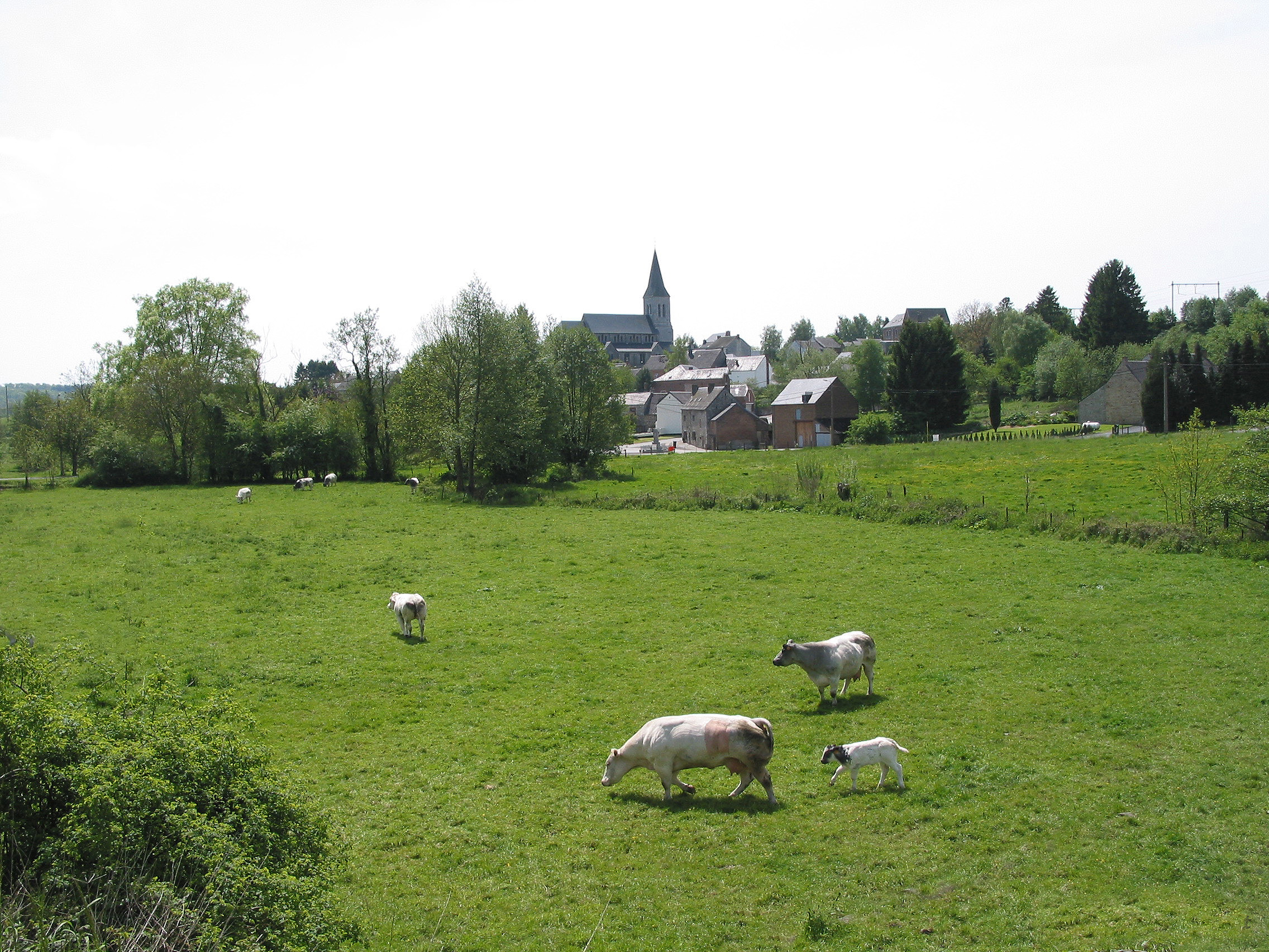 Natoye (Belgium), the village and its pastures.